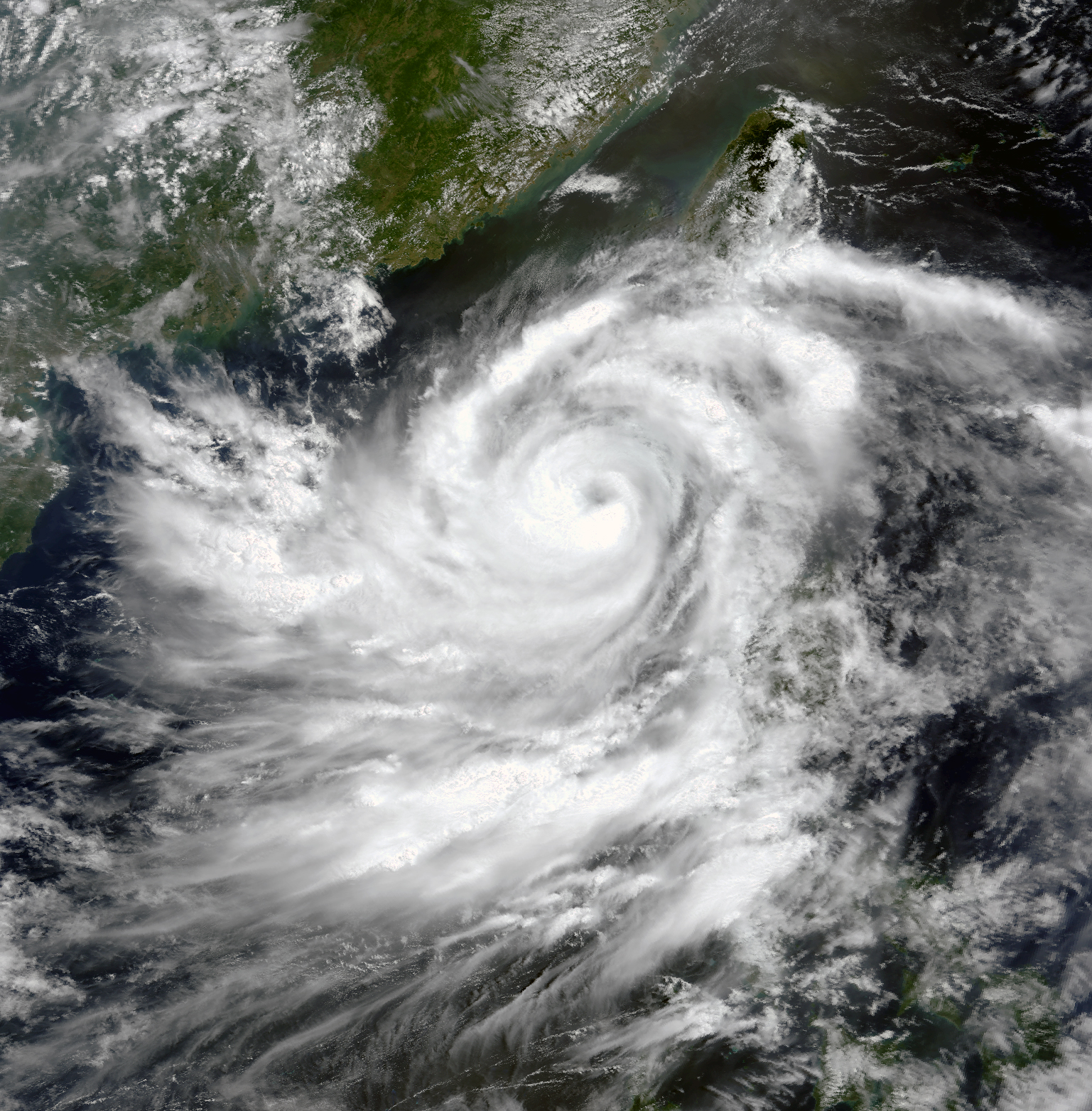 This image of Typhoon Kai-Tak was acquired by the Moderate Resolution Imaging Spectroradiometer (MODIS) on the Terra satellite at 0305 UTC on July 7, 2000. Maximum sustained wind speeds were recorded at 70 knots.